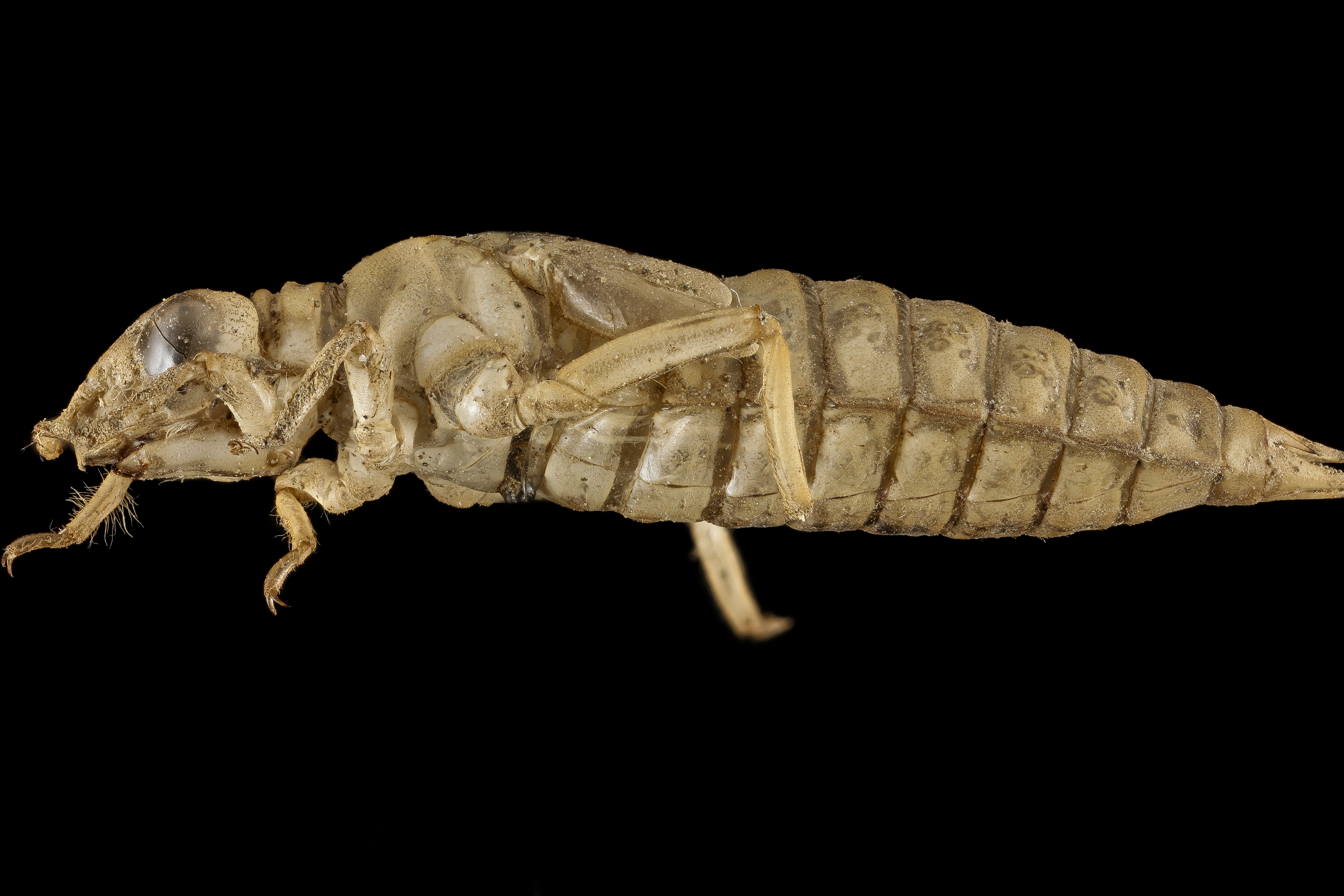 Ophiogomphus susbehcha, cast skin, collected by Richard Orr along the Potomac River